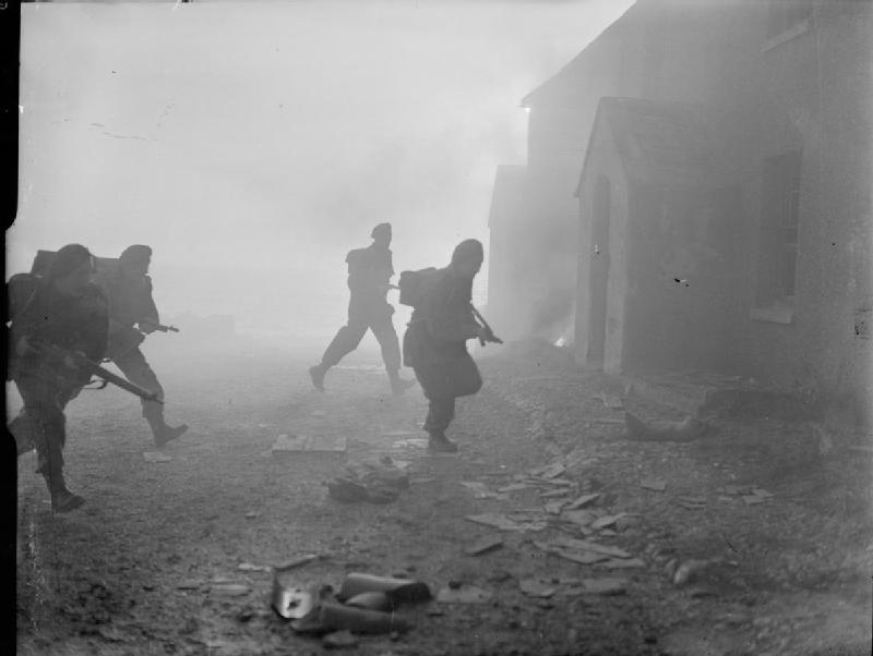 Belgian Commandos in Training in Britain, 1945 Under cover of smoke, a group of Belgian Commandos storm a building as part of a training exercise, somewhere in Britain.